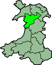 Merionethshire one of the traditional counties in Wales